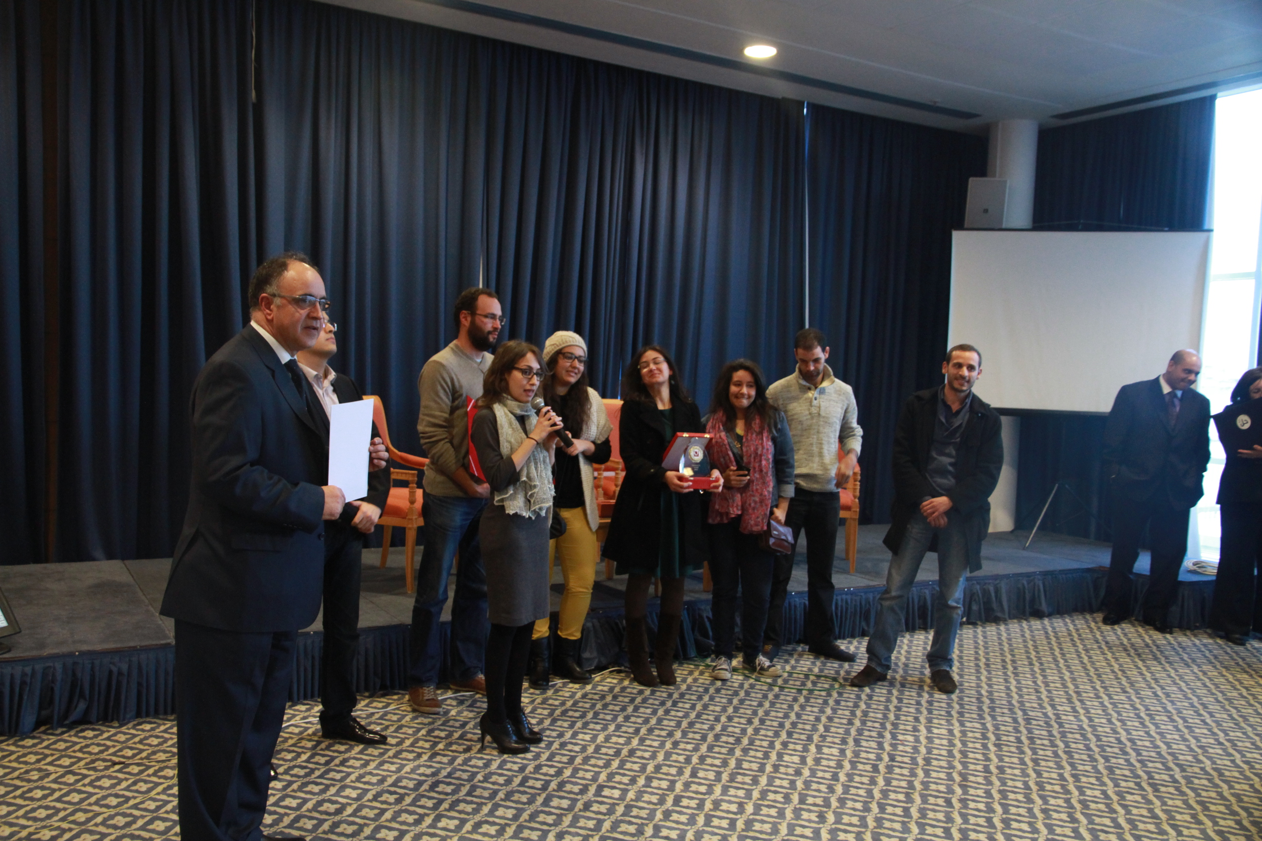 OpenGovTn Awards 2012 ceremony